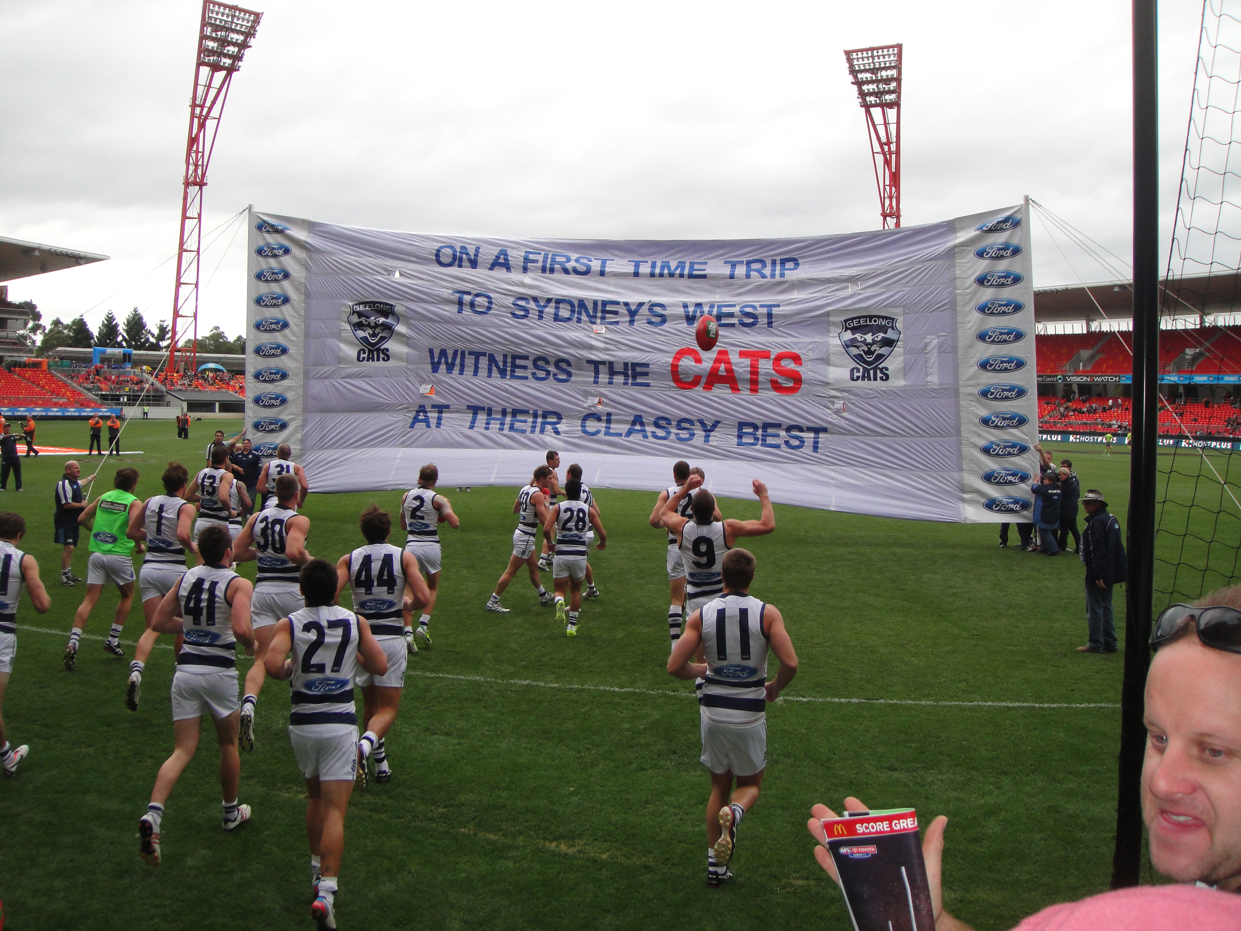 Geelong players run out before a banner made by their fans prior to a match against GWS in June 2013.